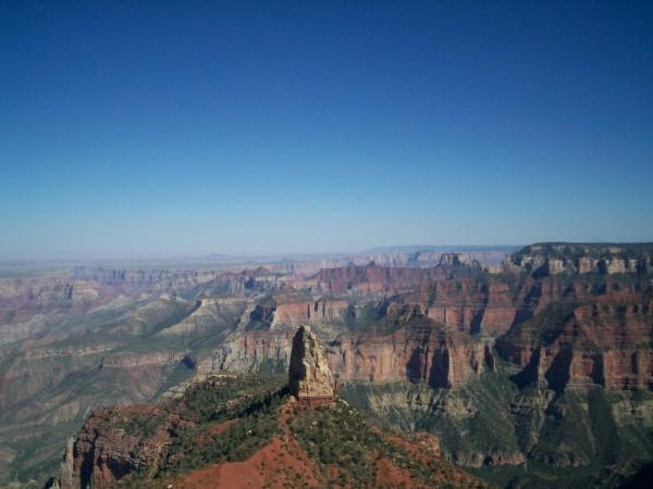 Imperial Point Grand Canyon by David Jolley.